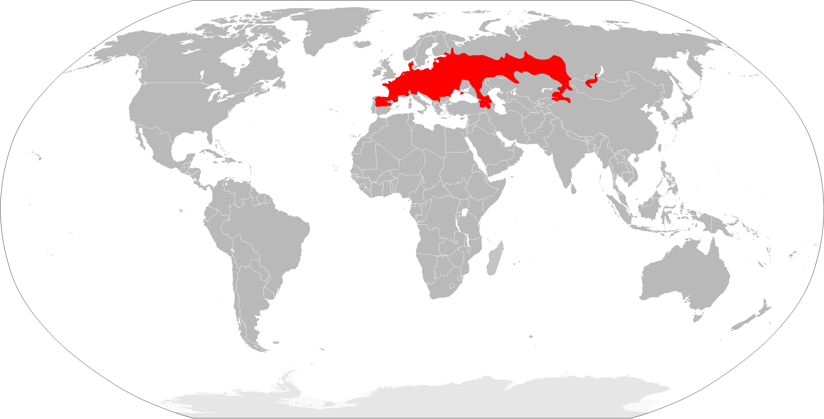 Range map of common vole (Microtus arvalis).